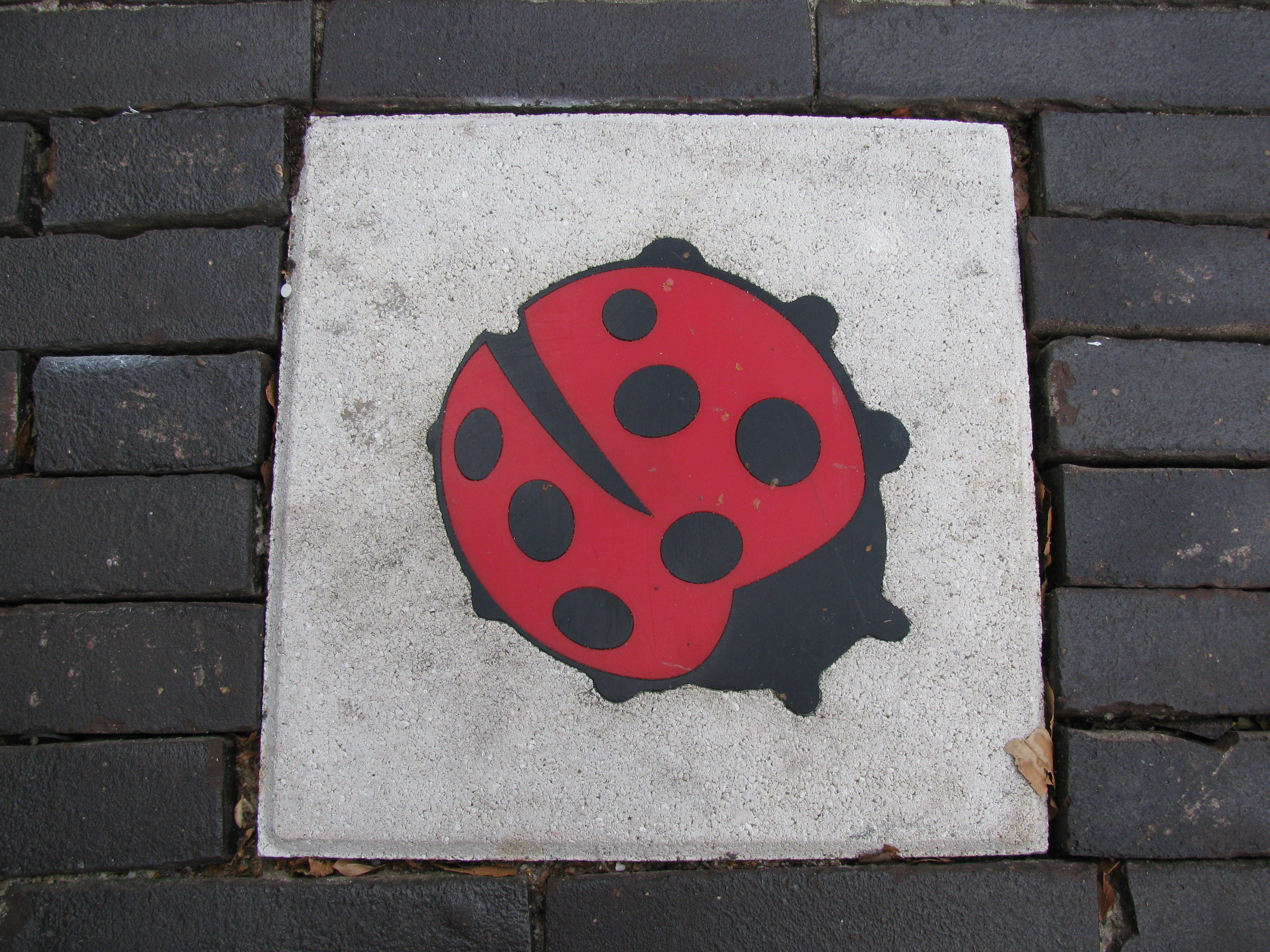 Ladybird on paving stone, found in many places in the Netherlands.The ladybird has become the symbol of a movement against 'aimless violence'